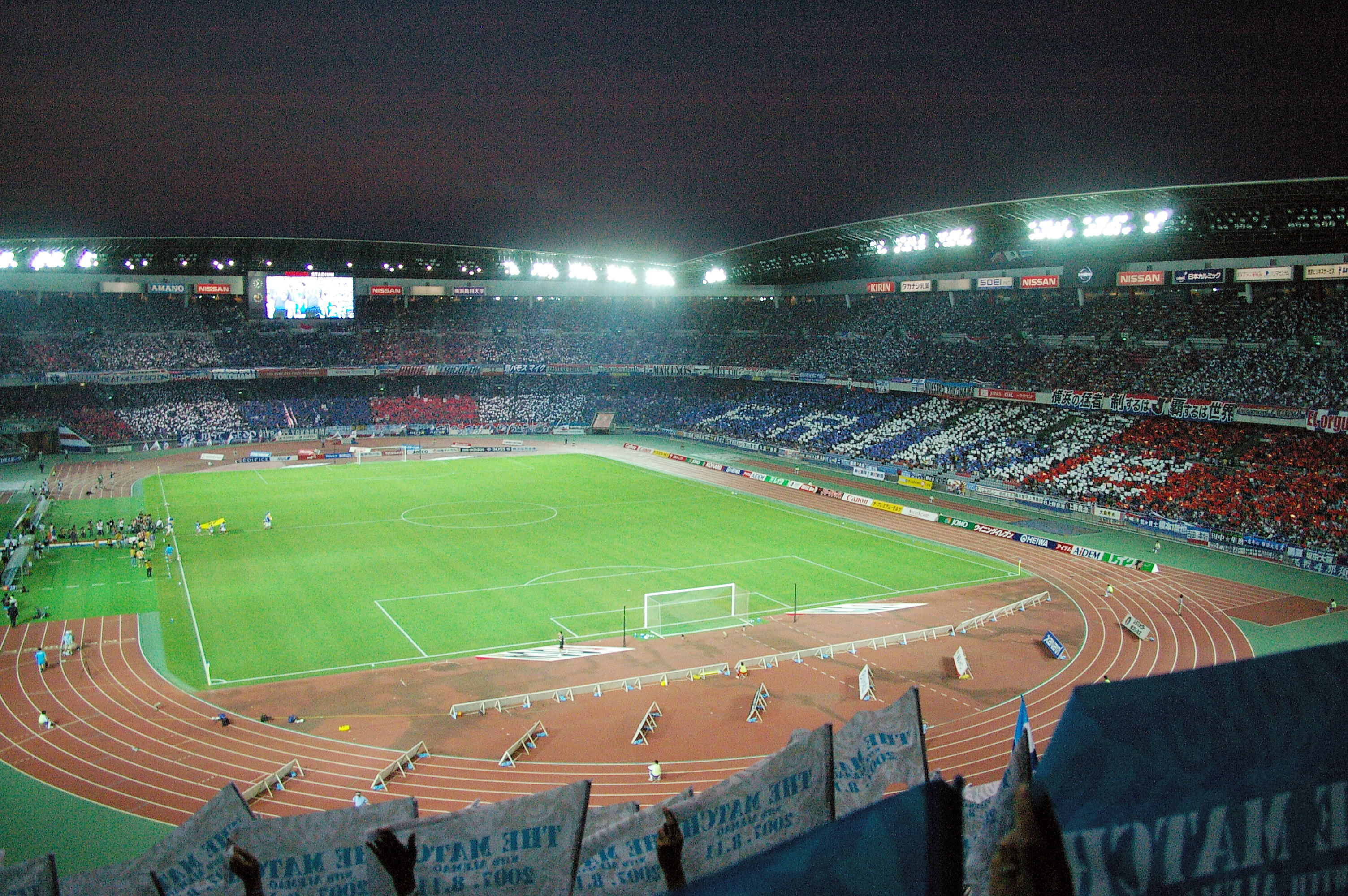 Yokohama delby Yokohama FC VS. Yokohama F･Marinos